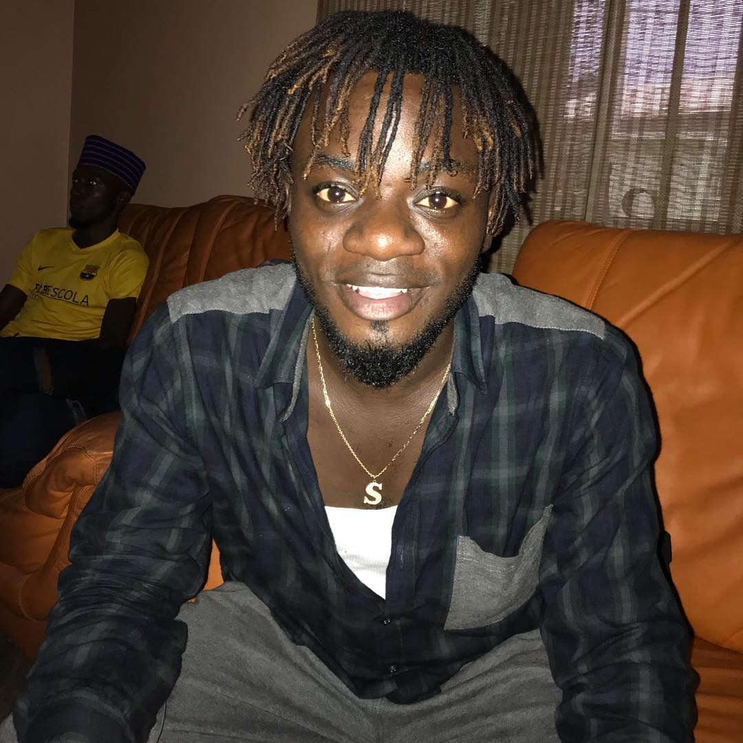 Samuel Singh Portrait